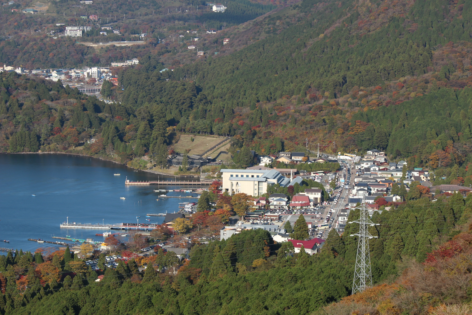 View of Hakone in Kanagawa Prefecture, Japan.